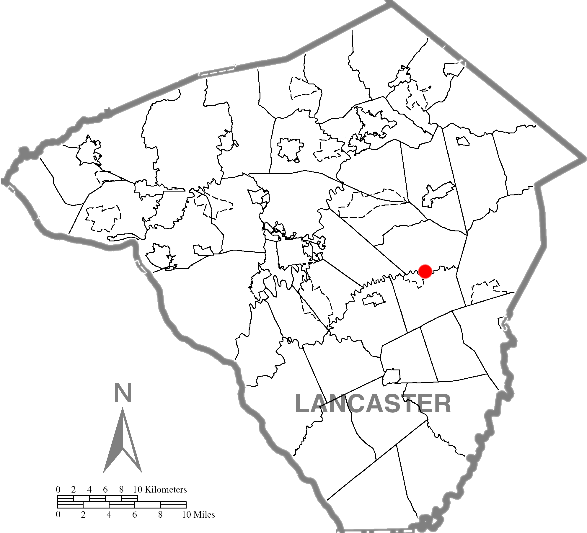 Lancaster County dot map of the Leaman's Place Covered Bridge.